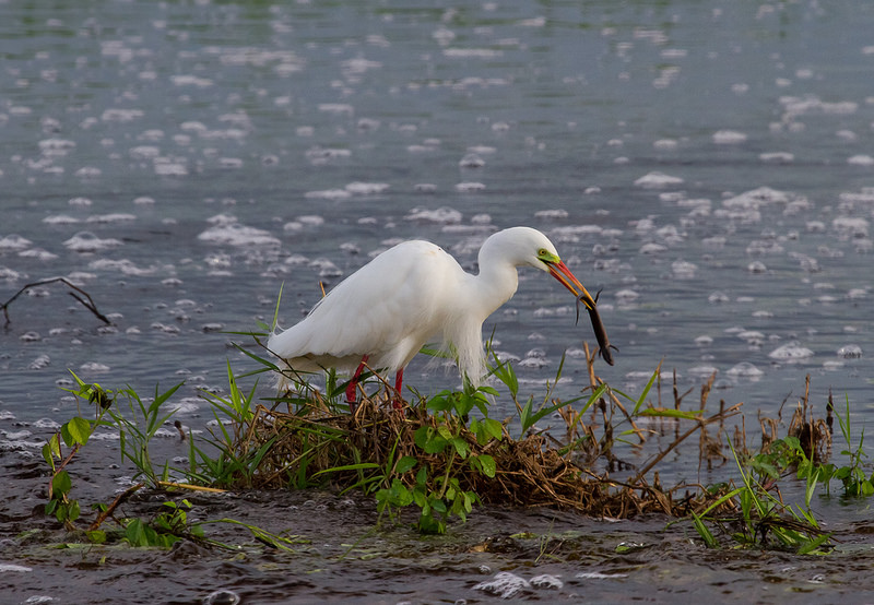 Intermediate Egret in breeding plumage - Fogg Dam - Middle Point - Northern Territory - Australia